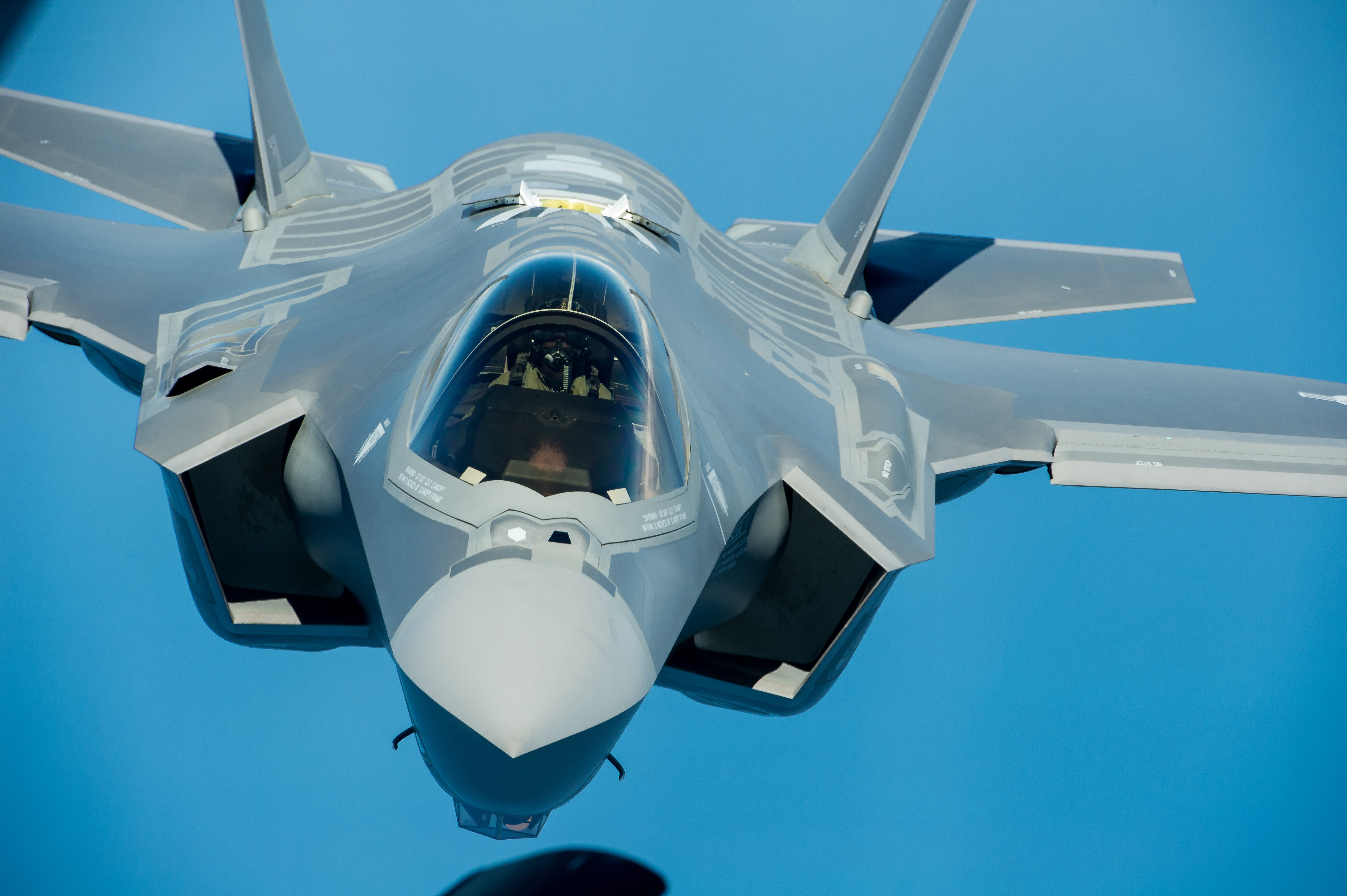 A U.S. Air Force pilot navigates an F-35A Lightning II aircraft assigned to the 58th Fighter Squadron, 33rd Fighter Wing into position to refuel with a KC-135 Stratotanker assigned to the 336th Air Refueling Squadron over the northwest coast of Florida May 16, 2013. The F-35 Integrated Training Center was established at Eglin Air Force Base and was responsible for conducting student pilot training and maintainer training for Airmen, Marines and Sailors responsible for the aircraft.